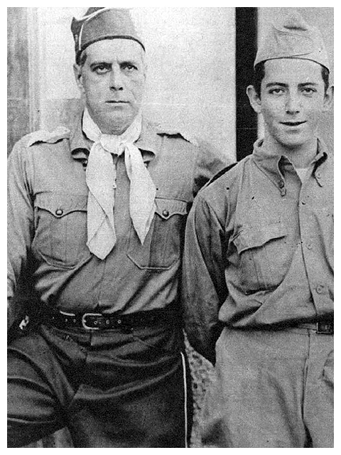 Euclides de Oliveira Figueiredo and his son, Guilherme Figueiredo.